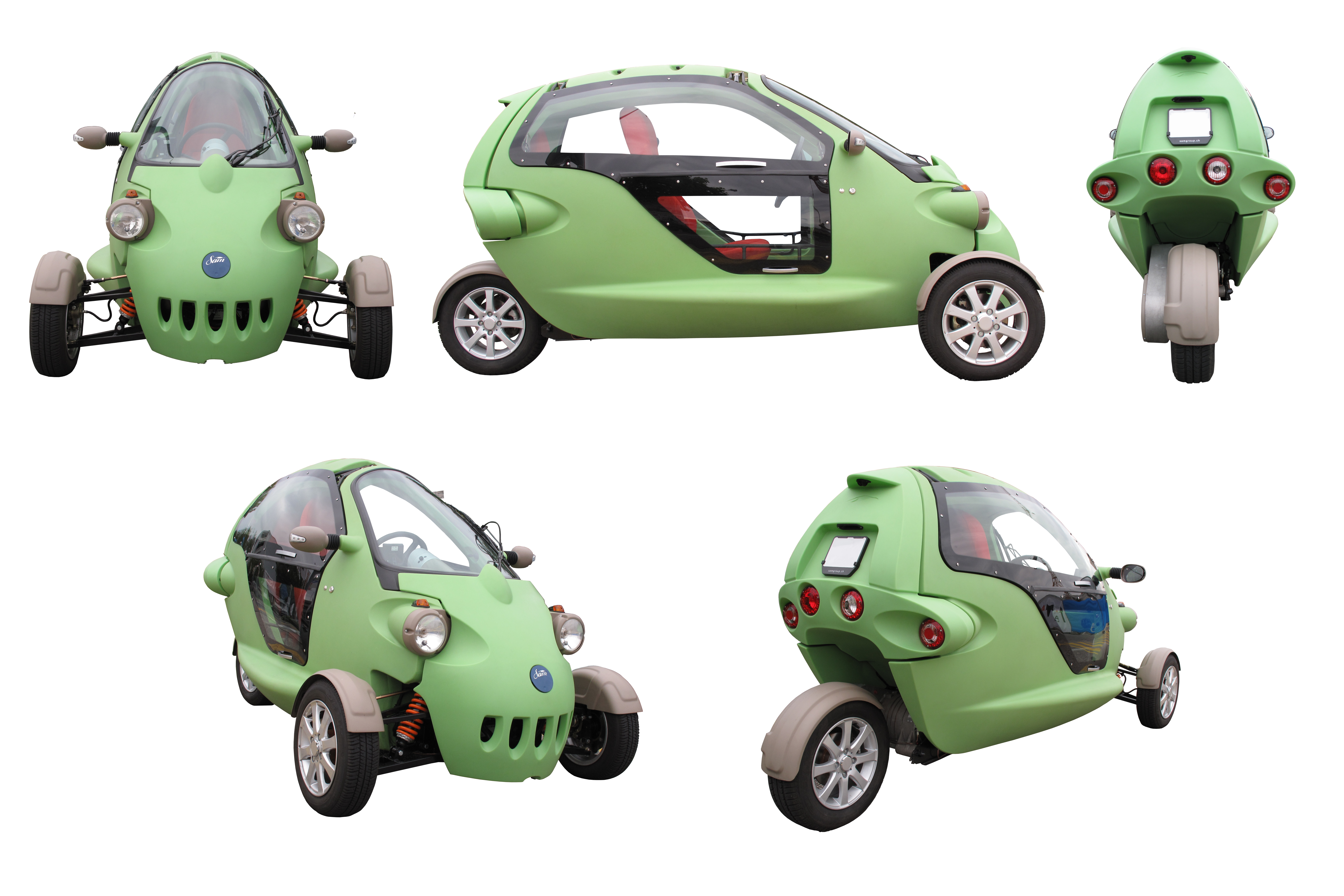 Cree SAM